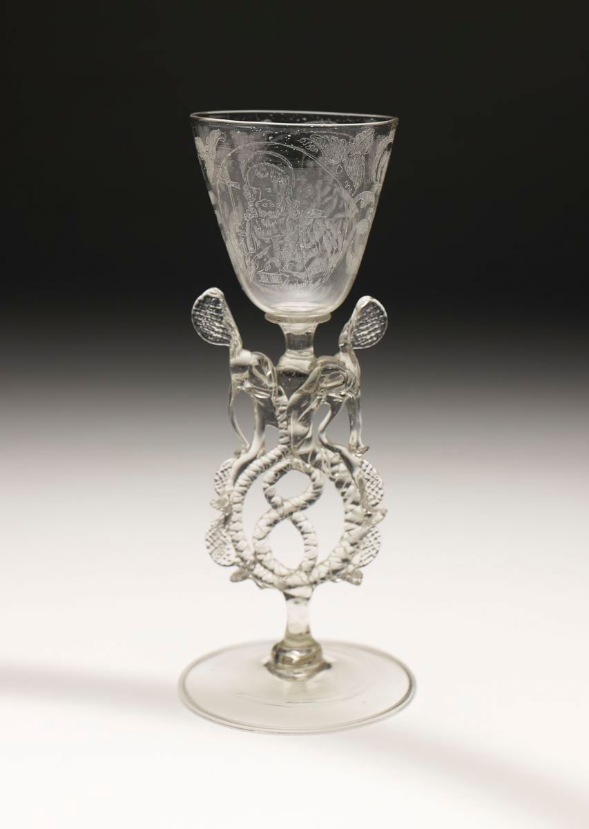 A seventeenth century winged goblet from the southern Netherlands. Crafted in the Venetian style, this goblet features engravings of St. Paul and St. John the Baptist.